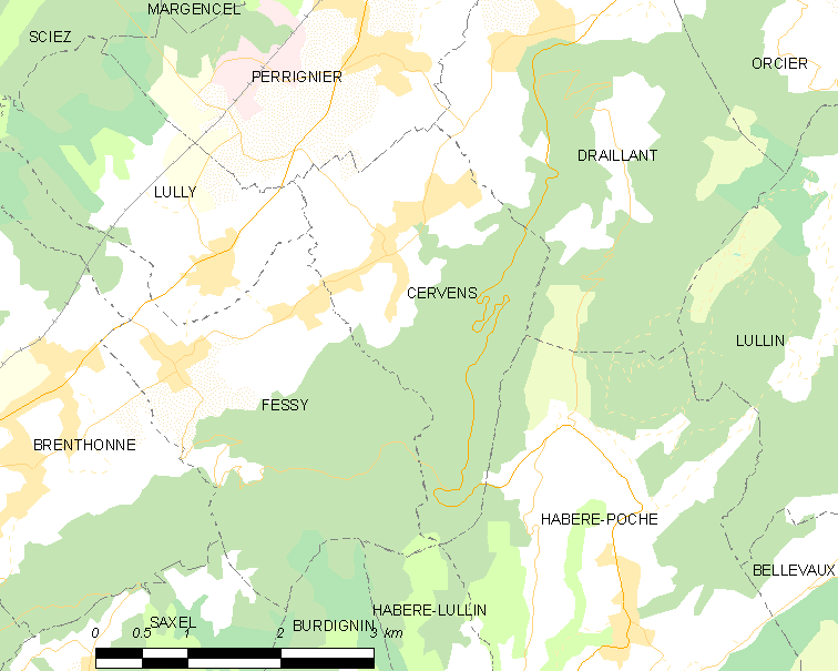 Map of French municipality Cervens